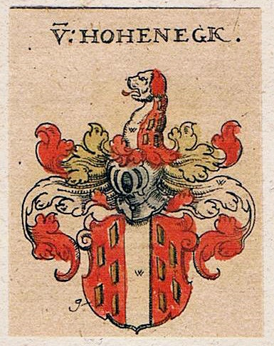 Wappen der ausgestorbenen Pfälzischen Adelsfamilie von Hoheneck (Stammburg Hohenecken bei Kaiserslautern)